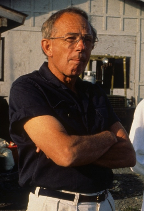 Ex-Governor Bill Sheffield and family are found vacationing out at the Homer Spit - Homer (Cook Inlet). July 18, 1989 Public Domain